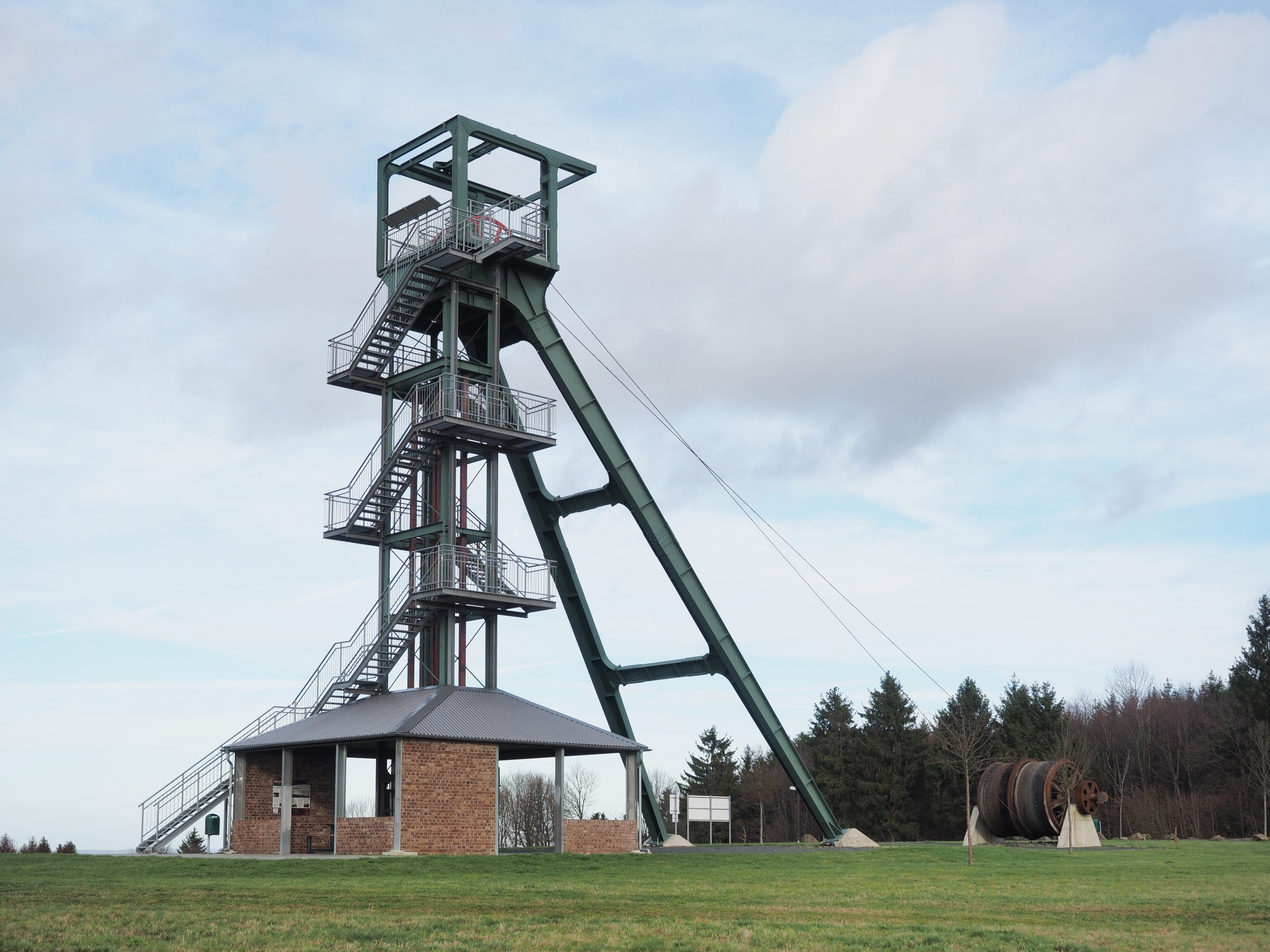 "Barbaraturm" lookout tower